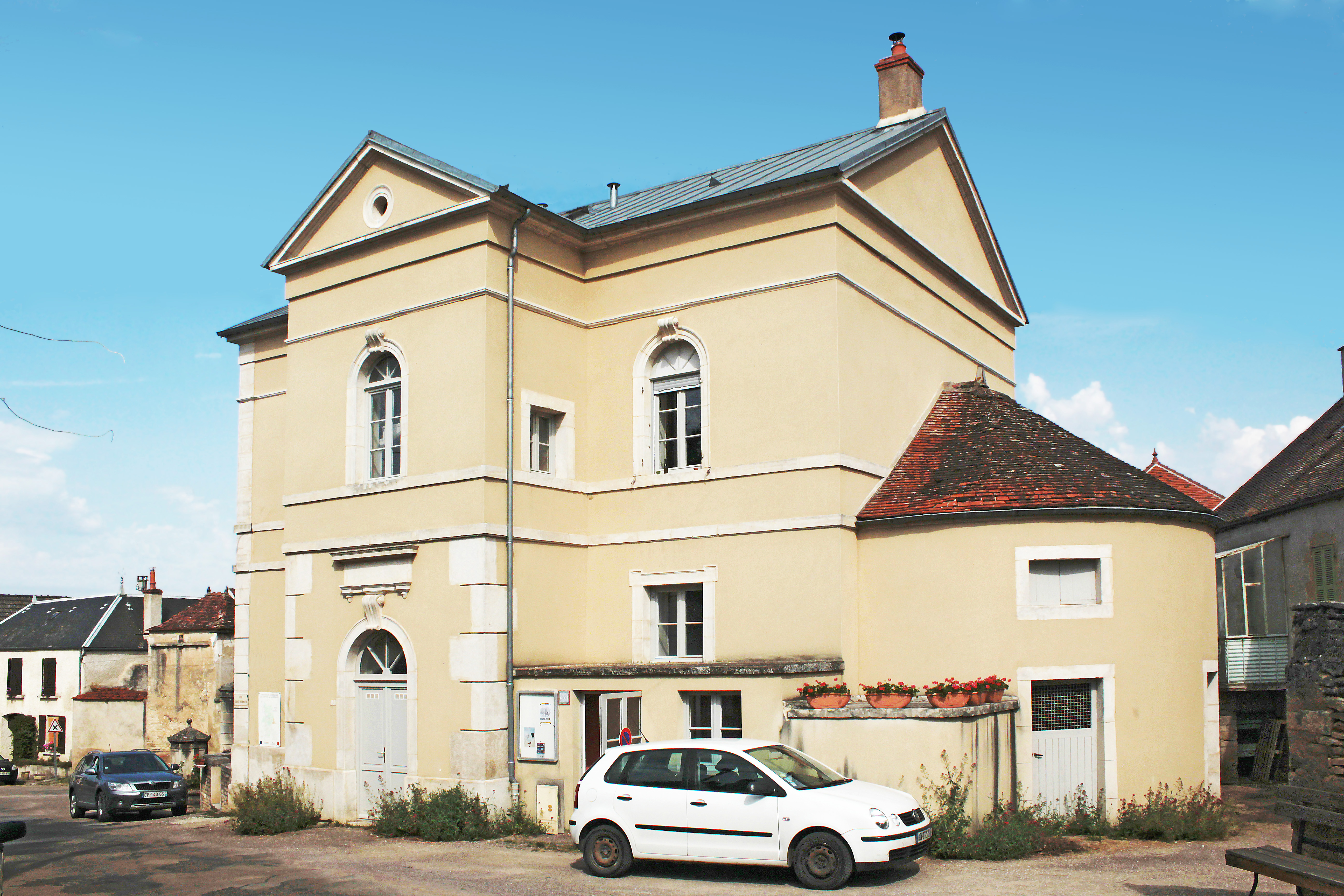 Viserny old townhall